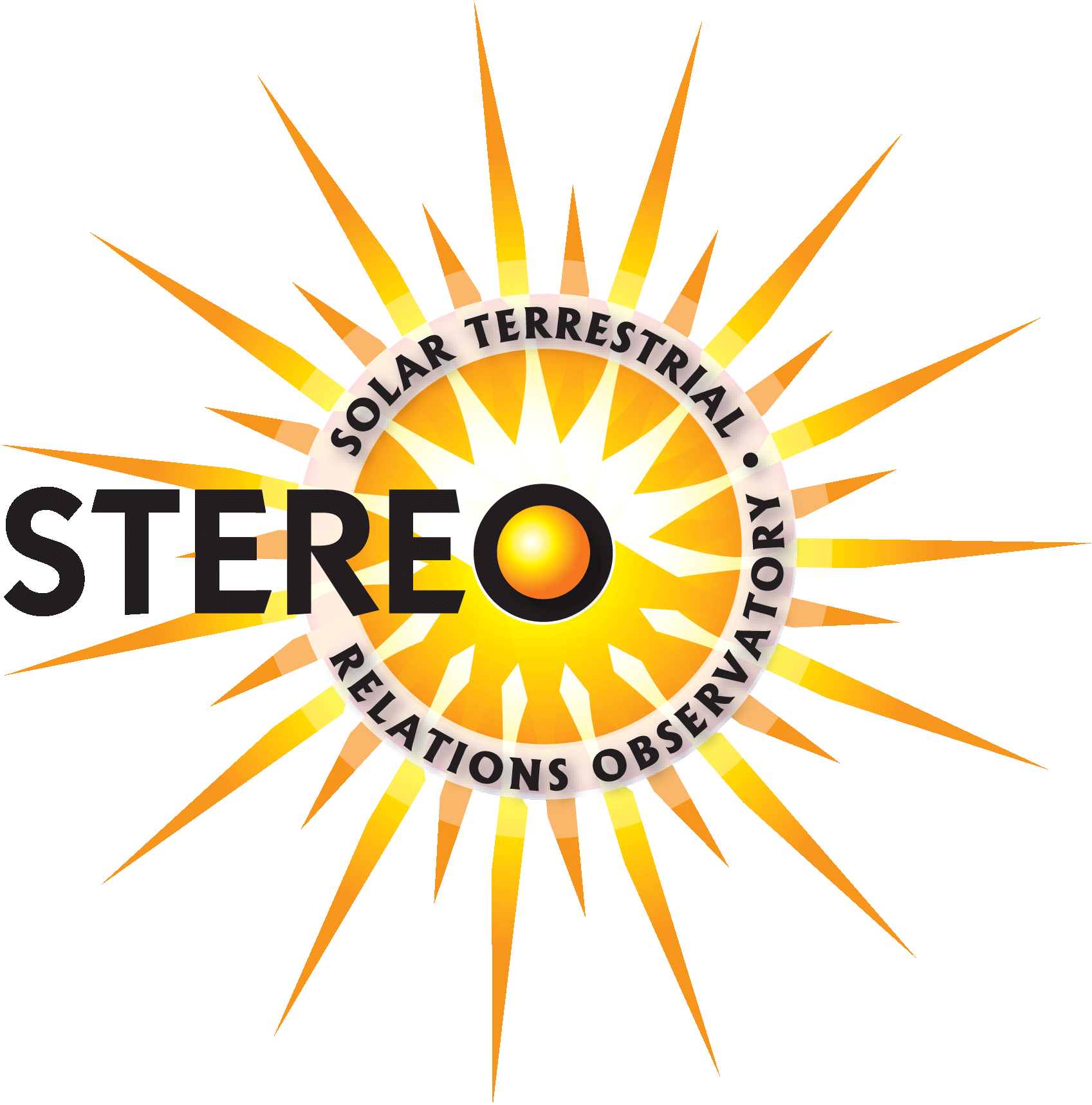 Insignia for NASA's STEREO Mission